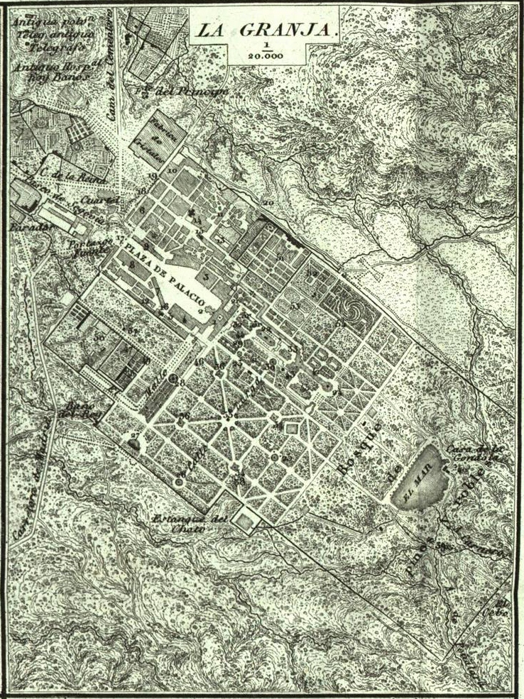 Map of La Granja cropped from the 1848 province of Segovia map by Francisco Coello